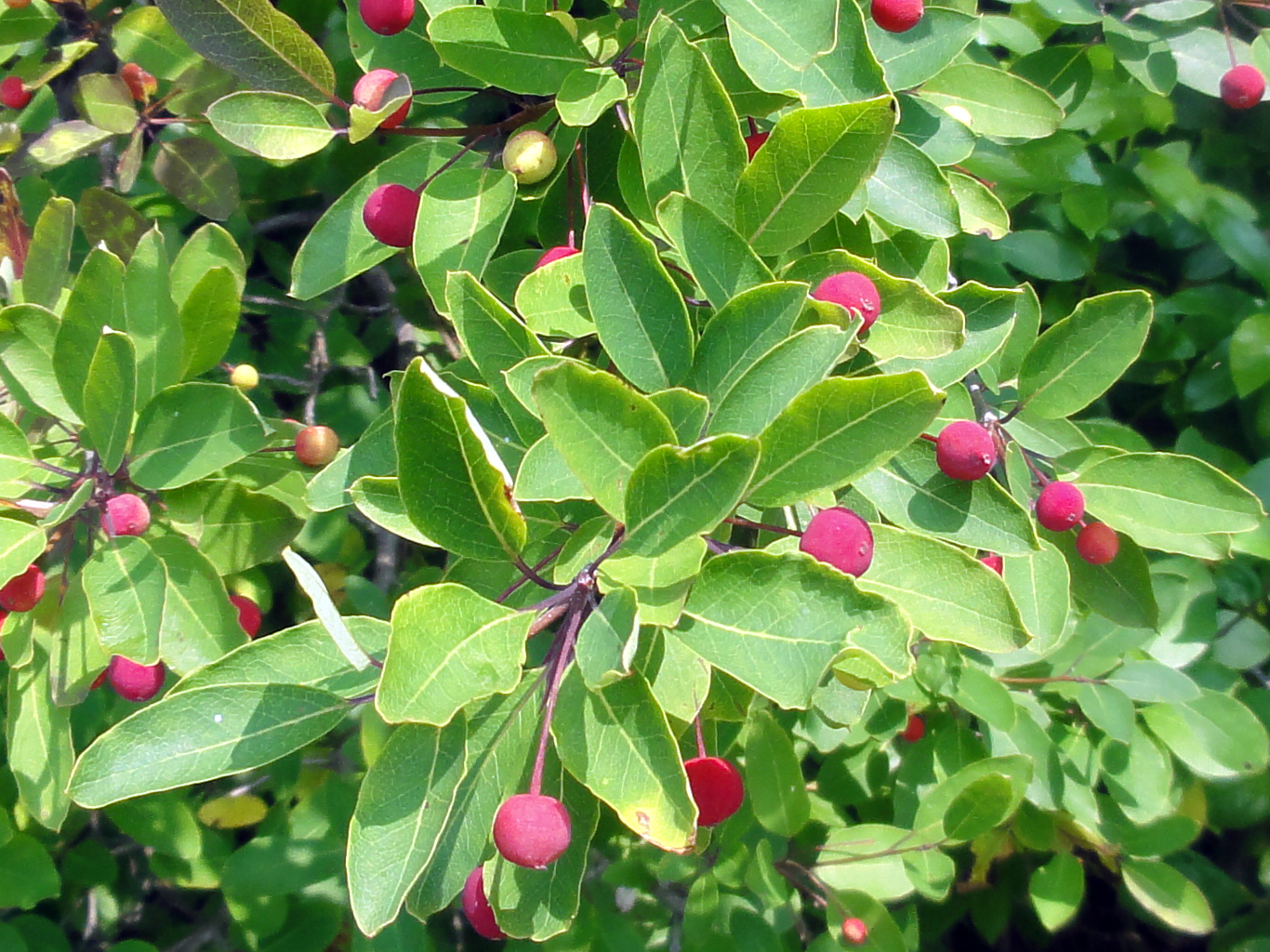 Ilex mucronata (L.) M.Powell, Savol. & S.Andrews - mountain holly or catberry, at Cowhorn Pond in the Five Ponds Wilderness Area, in the Adirondack State Park, New York.